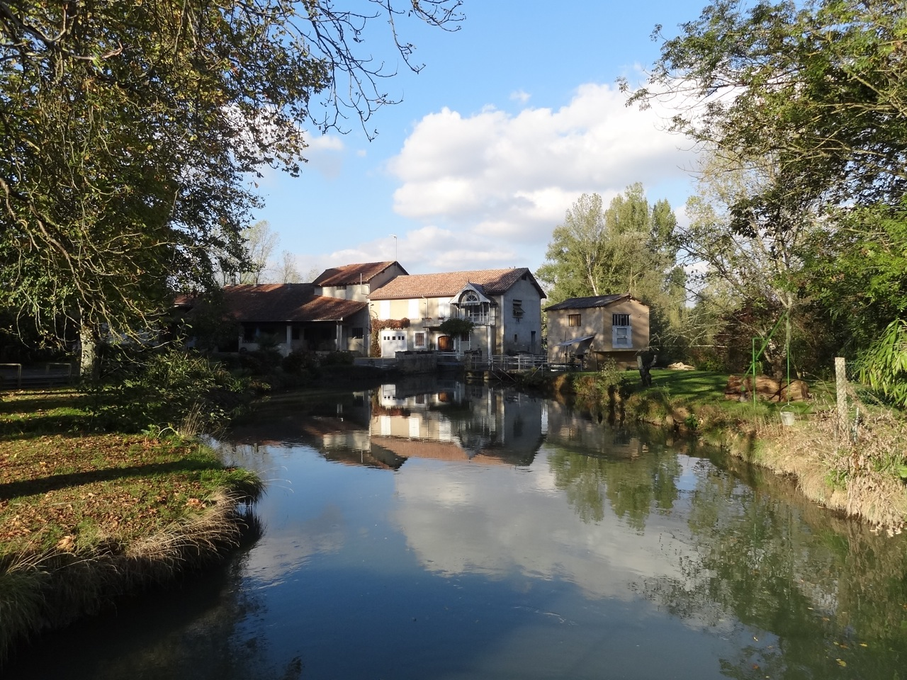 The watermill in Ornezan